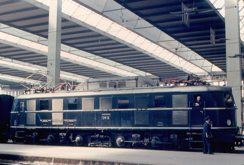 A class E 19 electric locomotive in the station in Munich. The E 19 (later 119) was intended to be Germany's premier locomotive. It had a top speed of 180 kph (112 mph). Only four were built, in 1938. World War II prevented further development.